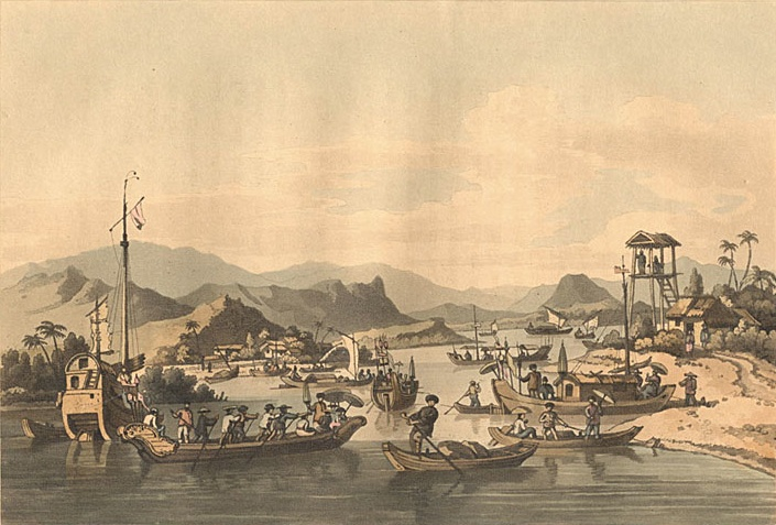 A voyage to Cochinchina in the years 1792 and 1793: Faifo